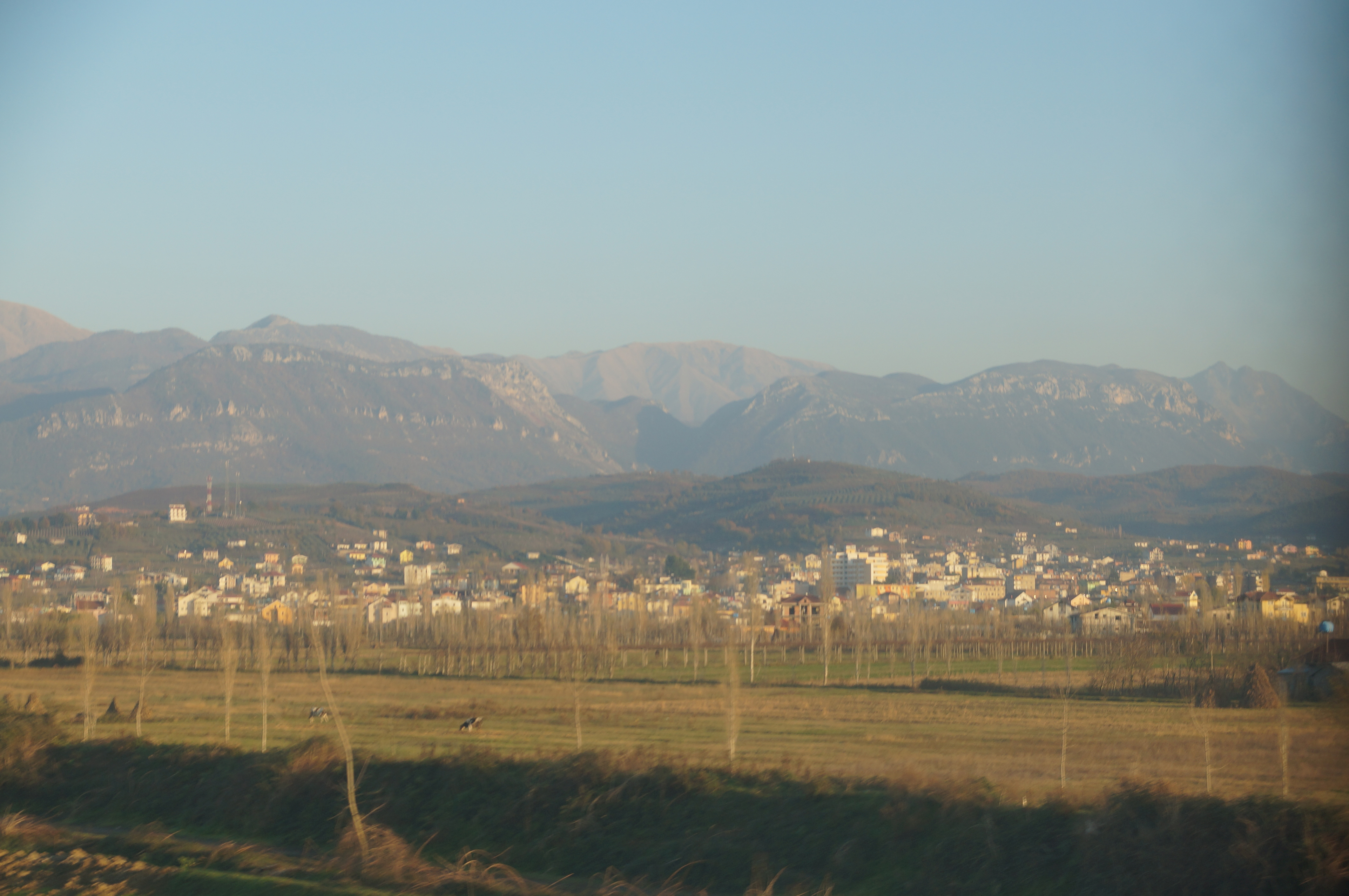 Mamurras and surrounding mountains